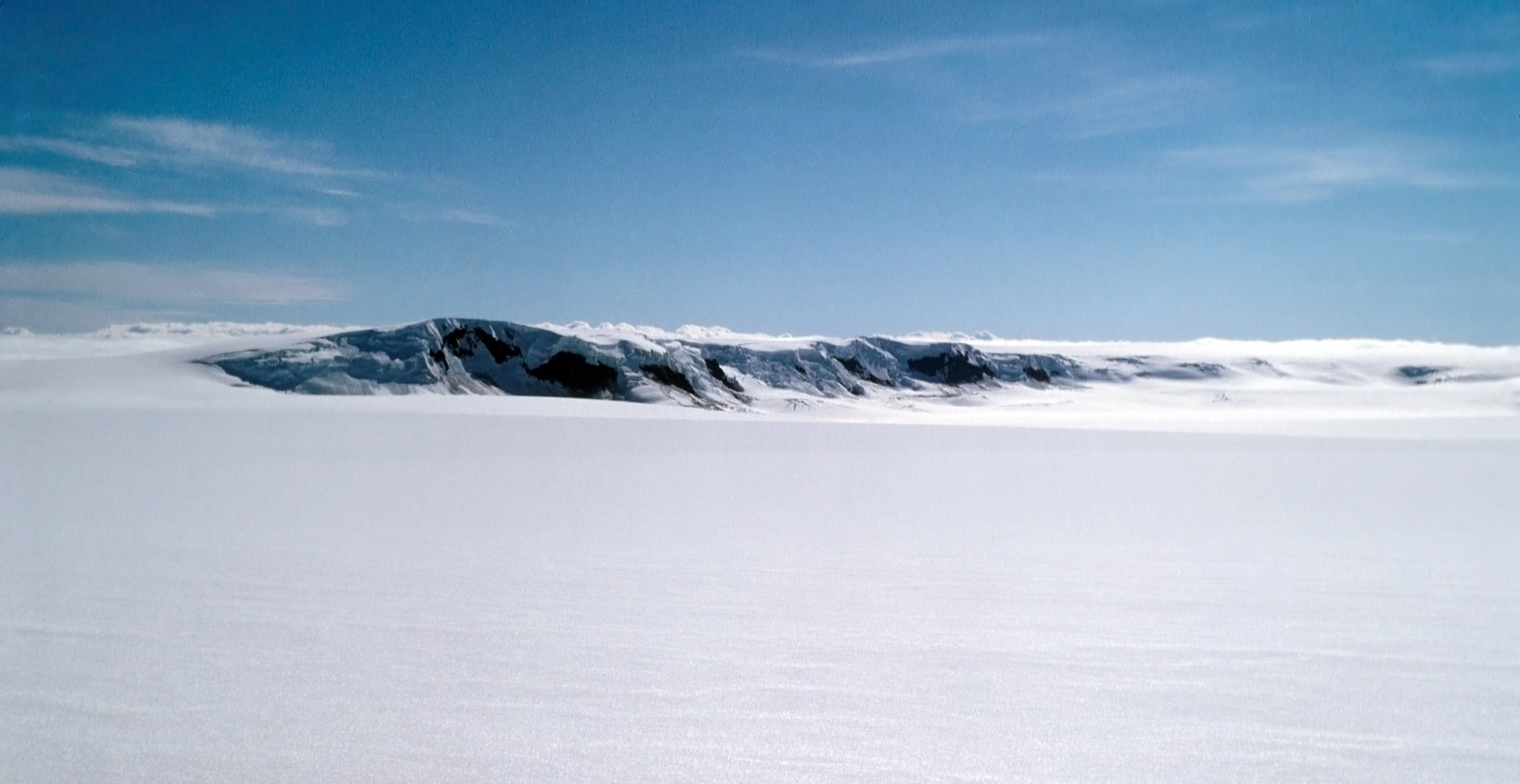 Grimsvötn in Vatna Jökull glacier in Iceland on 29 Jul 1972. Picture taken and uploaded by Roger McLassus.